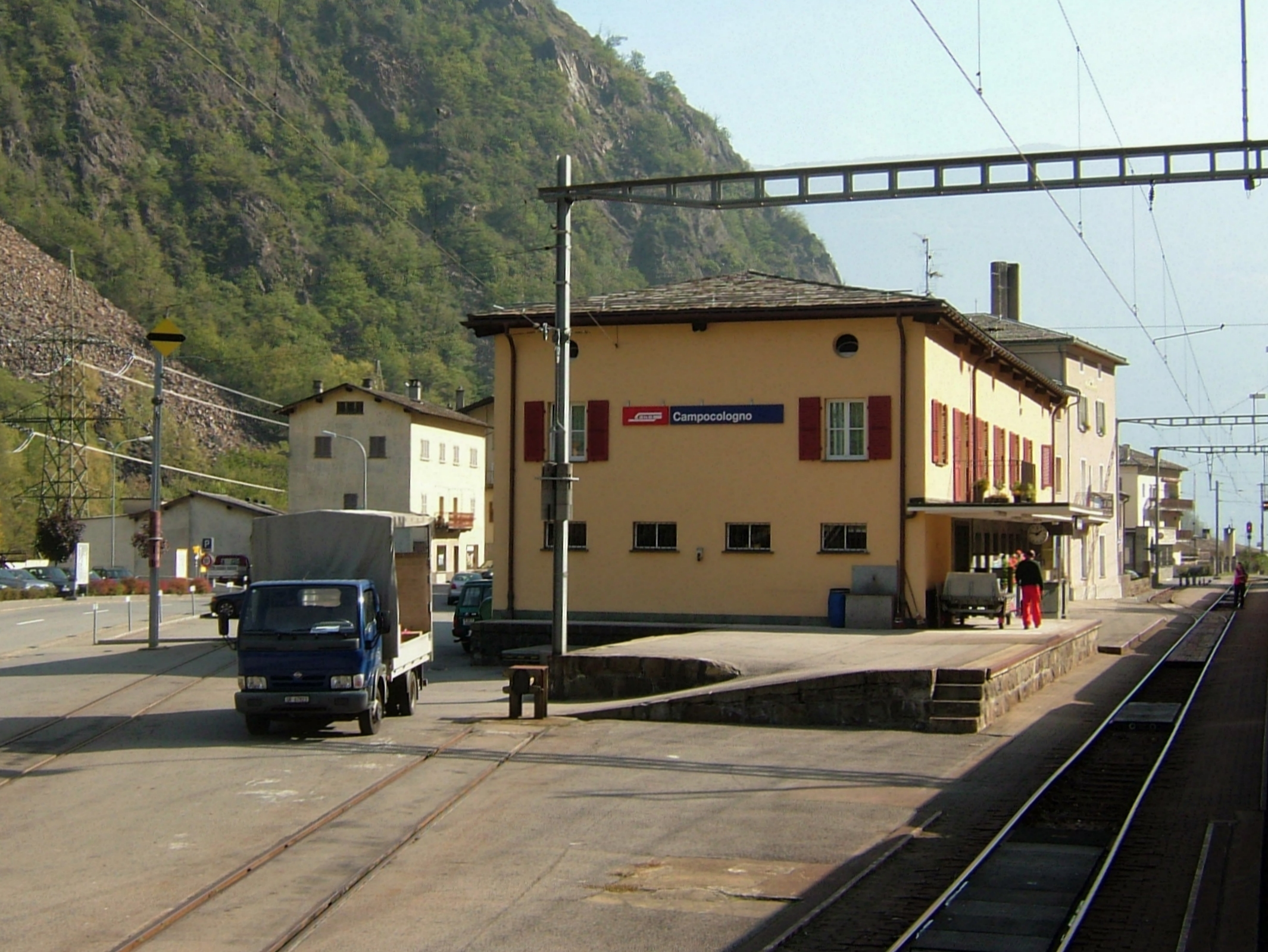 Bernina railwayDeployment between Poschiavo and TiranoCampocologno train station at the frontier between Switzerland and Italy